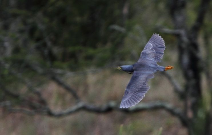 Dwarf Bittern Ixobrychus sturmii near Estcourt, KwaZulu-Natal.